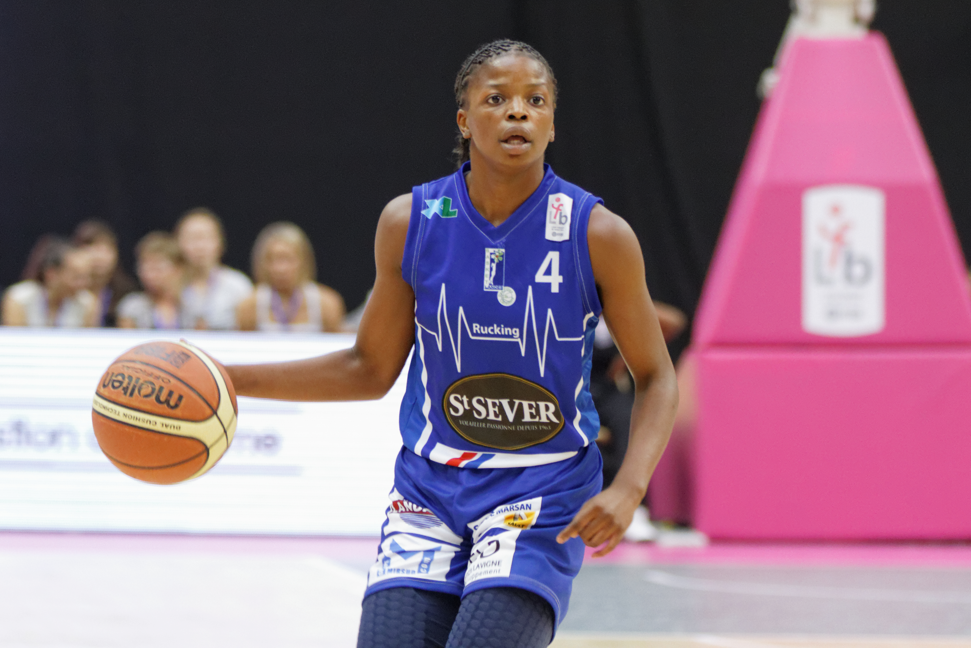 Open LFB, Villeneuve d'Ascq-Basket Landes, October 5th, 2013.